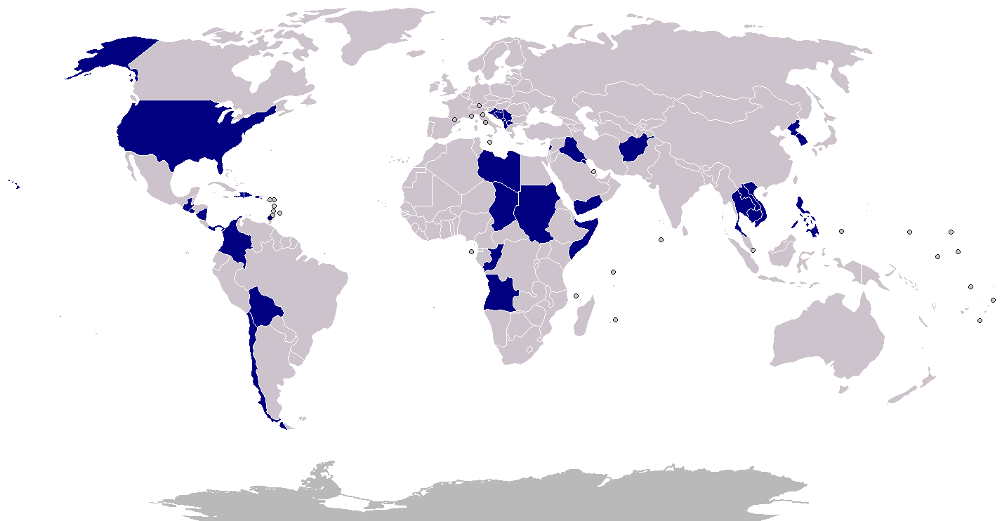 American military dominance since 1950.